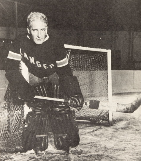 Lester Patrick - The story of hockey - Orr, Frank. -- New York : Random House, [1971]. -- viii, 143 p. : illus., ports. ; 22 cm. -- ISBN 0394923030 -- P. 41